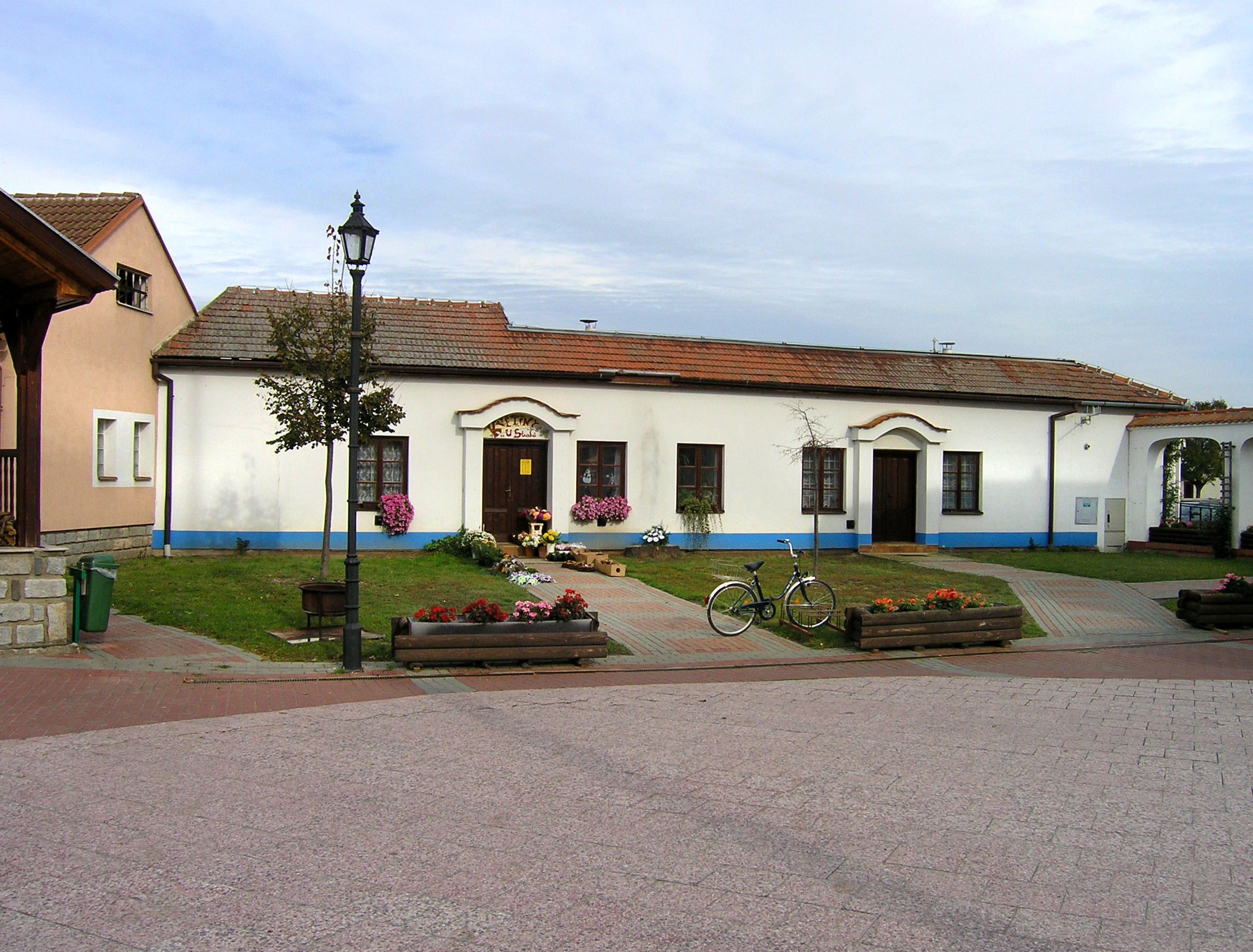 New common in Bořetice, Czech Republic